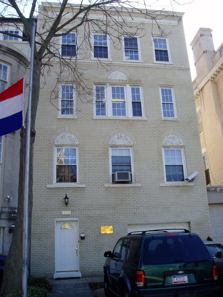 Taken by SimonP in April 2005